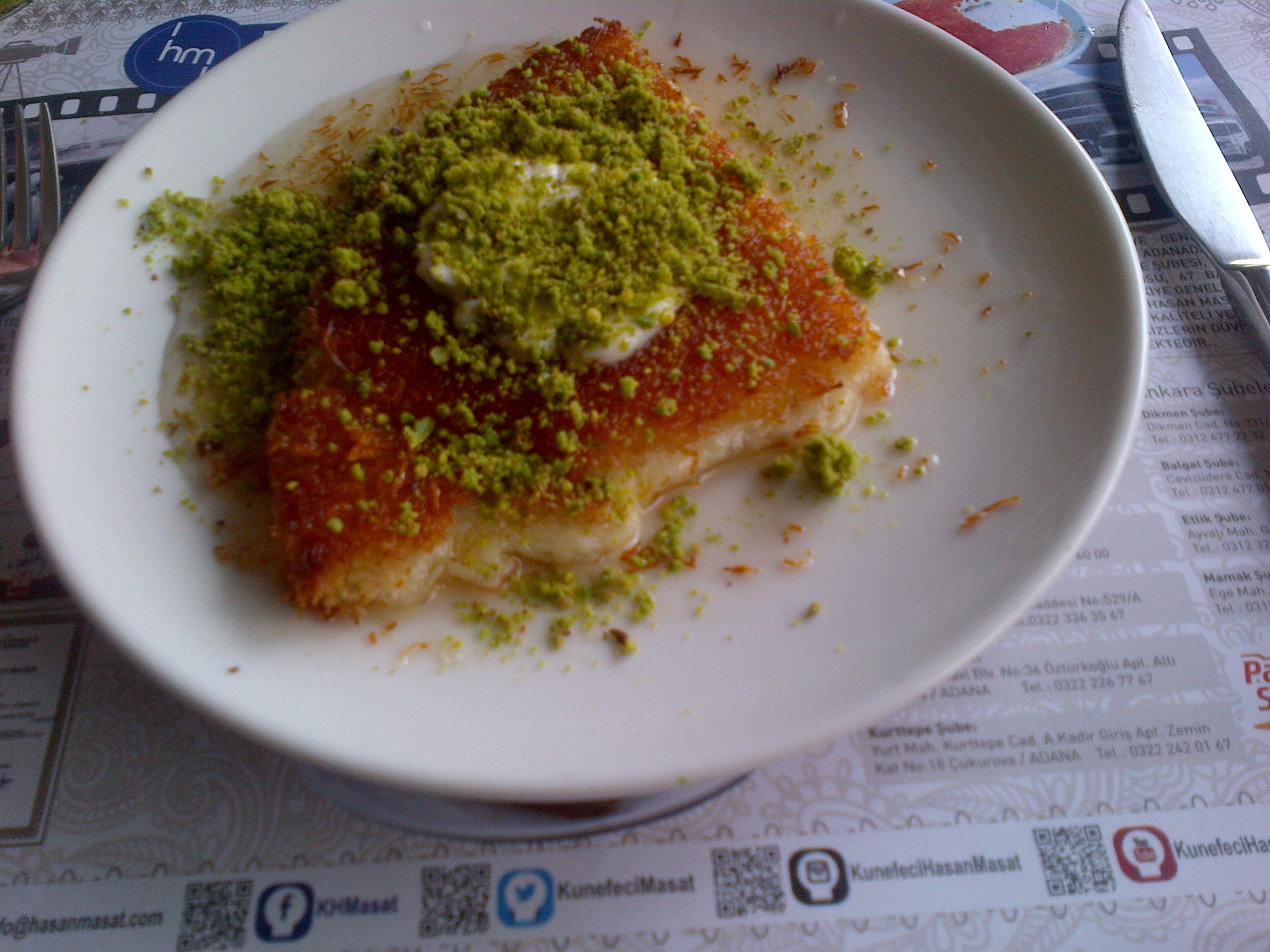 "Künefe of Antakya" from the cuisine of Hatay province, Turkey. It is served with a slice of kaymak and lots of chopped pistachios.